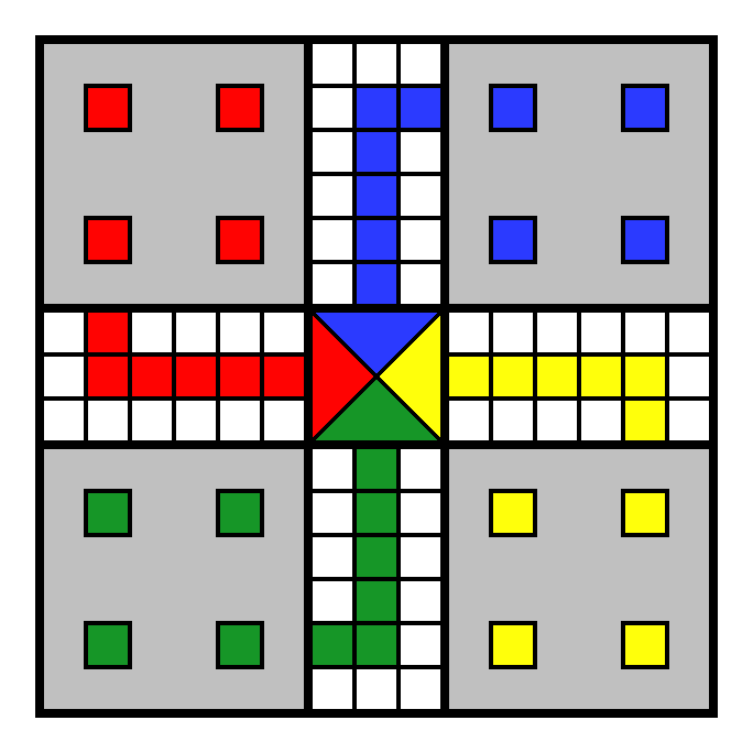 This Uckers gameboard graphic is (based on and) meant to replace the (rather sick) 2005 Uckers.jpg graphic.